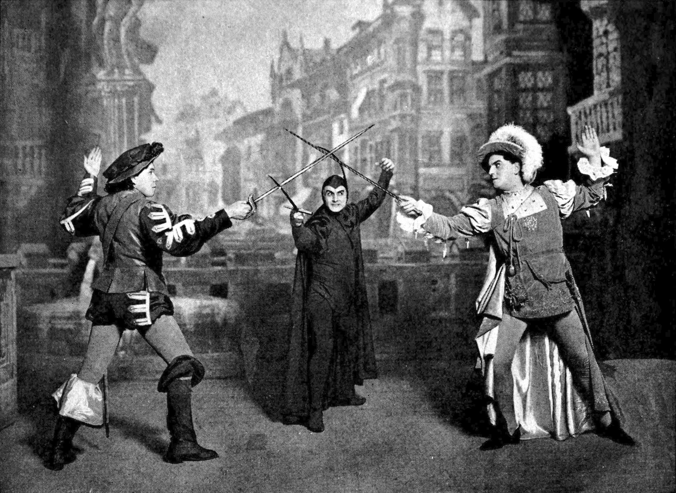 Gounod - Faust, act IV - Duel scene Title: The Victrola book of the opera : stories of one hundred and twenty operas with seven-hundred illustrations and descriptions of twelve-hundred Victor opera records Year: 1917 (1910s) Authors: Victor Talking Machine Company Rous, Samuel Holland Subjects: Operas Publisher: Camden, N.J. : Victor Talking Machine Co. Text Appearing Before Image: SOLDIERS CHORUS—ACT IV138 VICTROLA BOOK OF THE OPERA-GOUNODS FAUST Text Appearing After Image: DUEL SCENE ACT IV (English) (Italian) (French) The Soldiers Chorus—Deponiam il brando—Deposons les armes Fold the flag, my brothers, Fold the flag, my brothers, Lay by the spear! We come from the battle once more; Our pale praying mothers. Our wives and sisters dear, Our loss need not deplore, Yes! tis a joy for men victorious, To the children by the fire, trembling in our arms,To old age of old time glorious,To talk of wars alarms! Glory and love to the men of old,Their sons may copy their virtues bold,Courage in heart and sword in hand,Ready to fight or ready to die, for Fatherland!Who needs bidding to dare, by a trumpetblown? Who lacks pity to spare, when the field is won?Who would fly from a foe, if alone, or last?And boast he was true, as cowards might doWhen peril is past?Glory and love to the men of old, etc. Now to home again we come, The long and fiery strife of battle over; Rest is pleasant after toil as hard as ours Beneath a stranger sun. Many a maiden fair is waiting